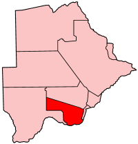 Map of Botswana showing Southern district.